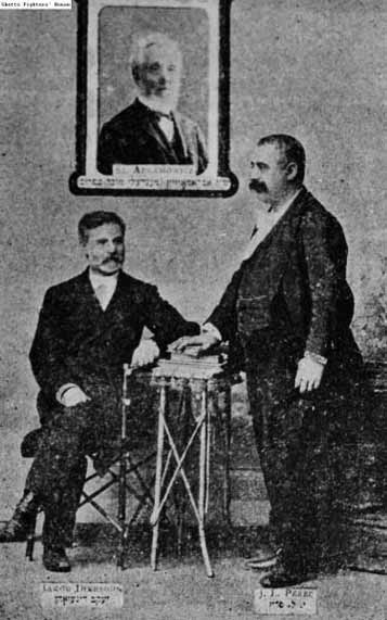 Yacov Dinezon with I.L. Peretz, behind them picture of Mendele Mocher Sforim